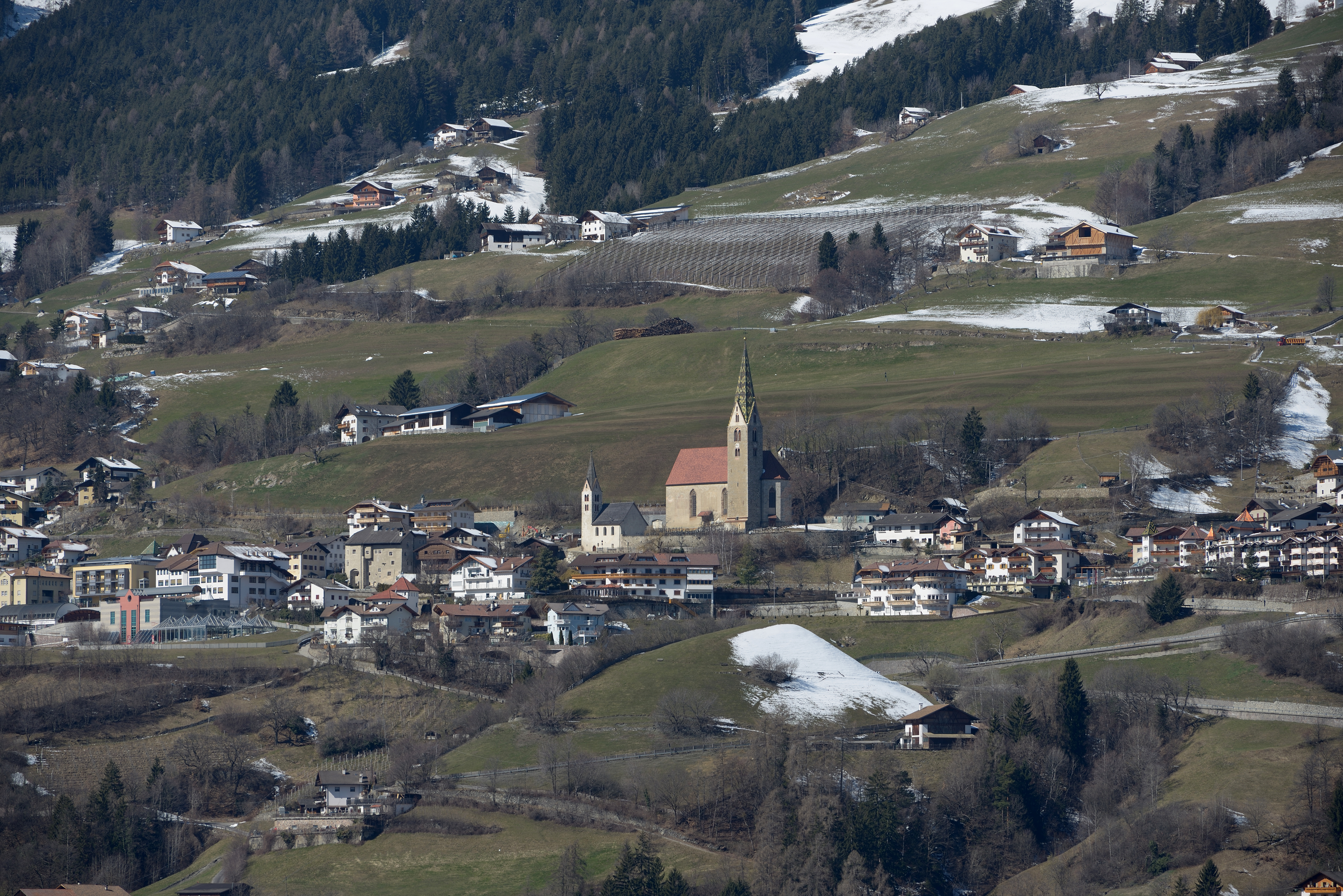 Villanders in South Tyrol